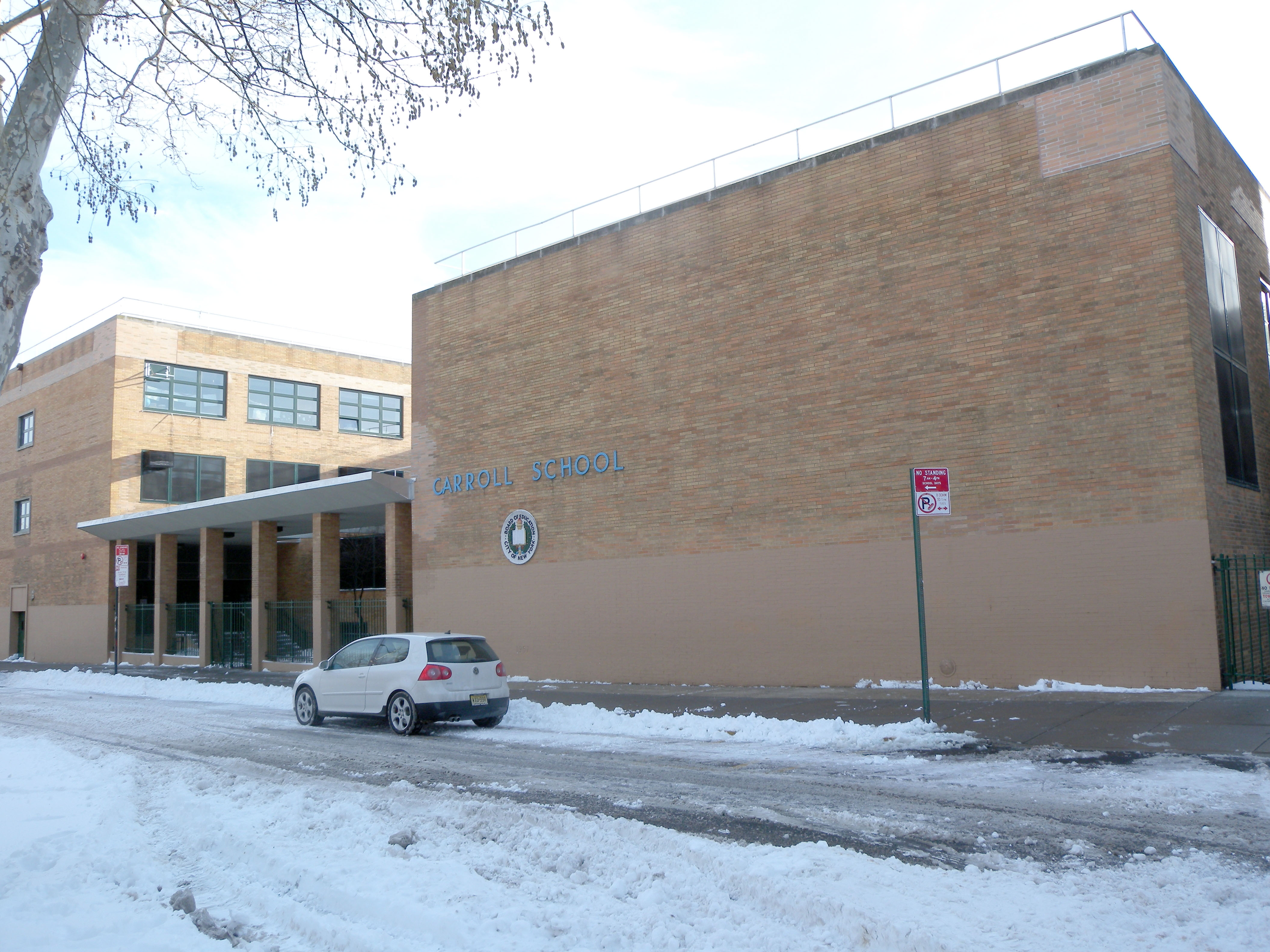 Looking south across Carroll Street at PS 61, The Carroll School in Carroll Gardens, Brooklyn in the afternoon after a snowstorm.